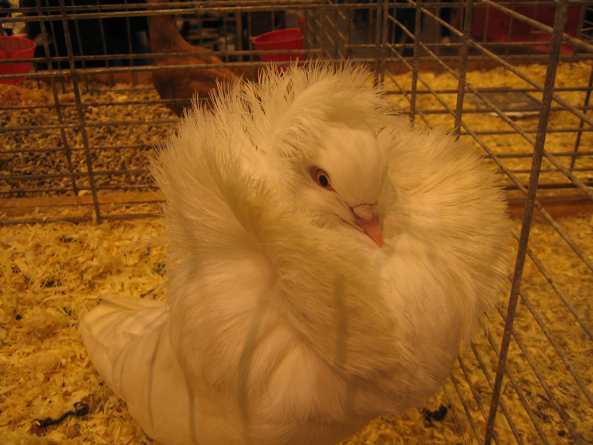 Pigeon (columba livia), Old Dutch Capuchine breed, sitted, at Paris International Agricultural Show.